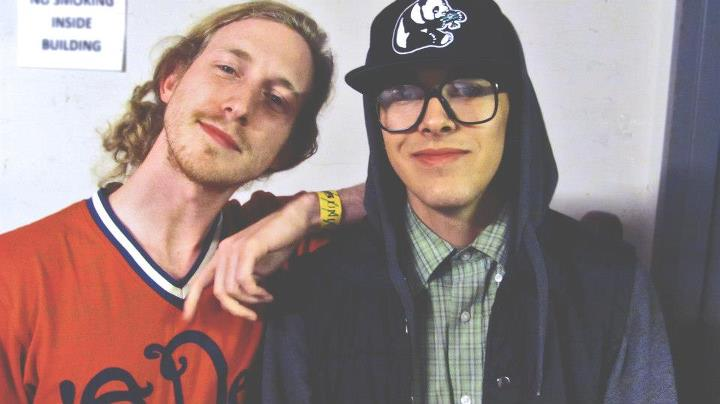 At a UCSD concert.